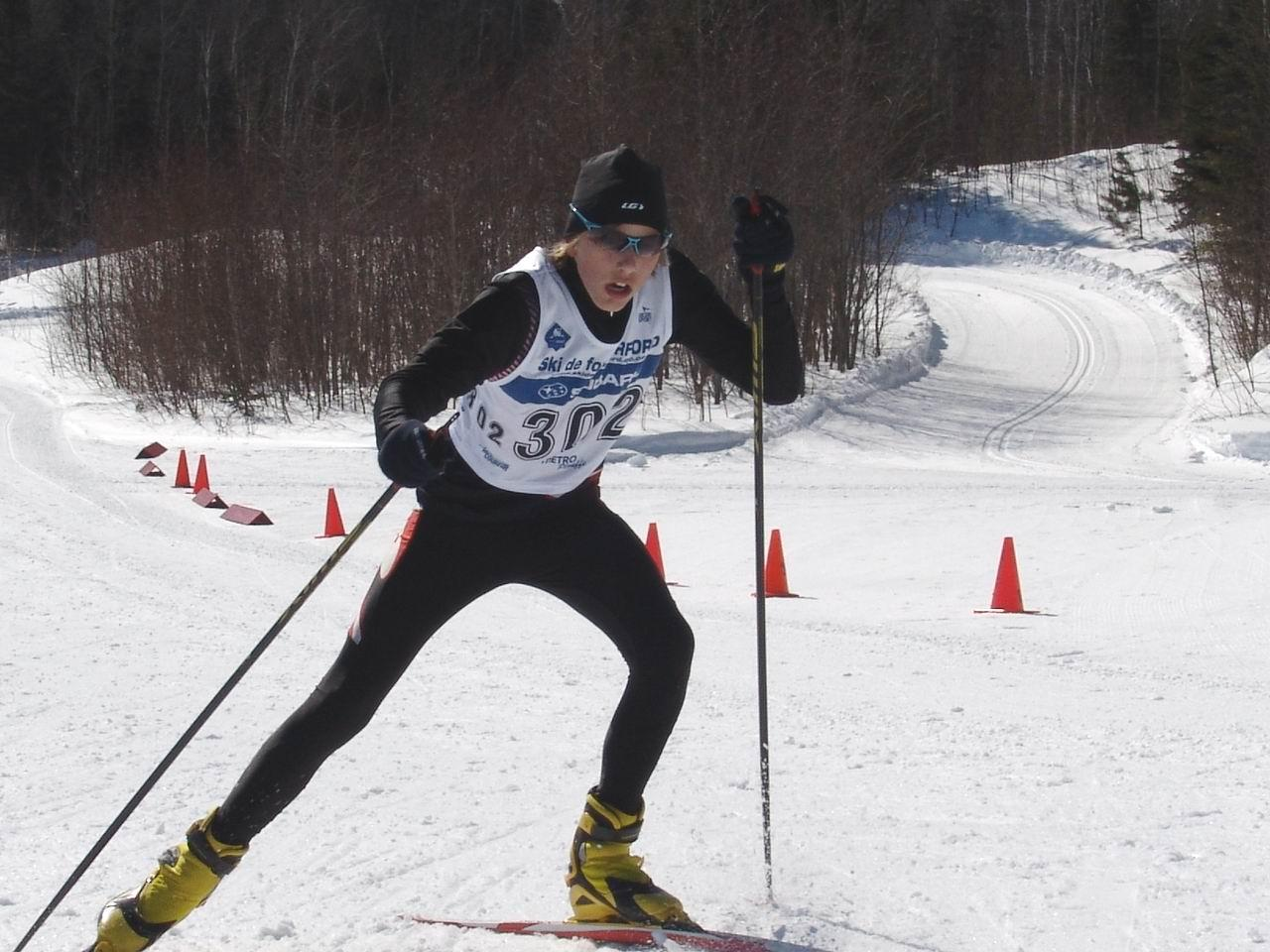 Skate skiing